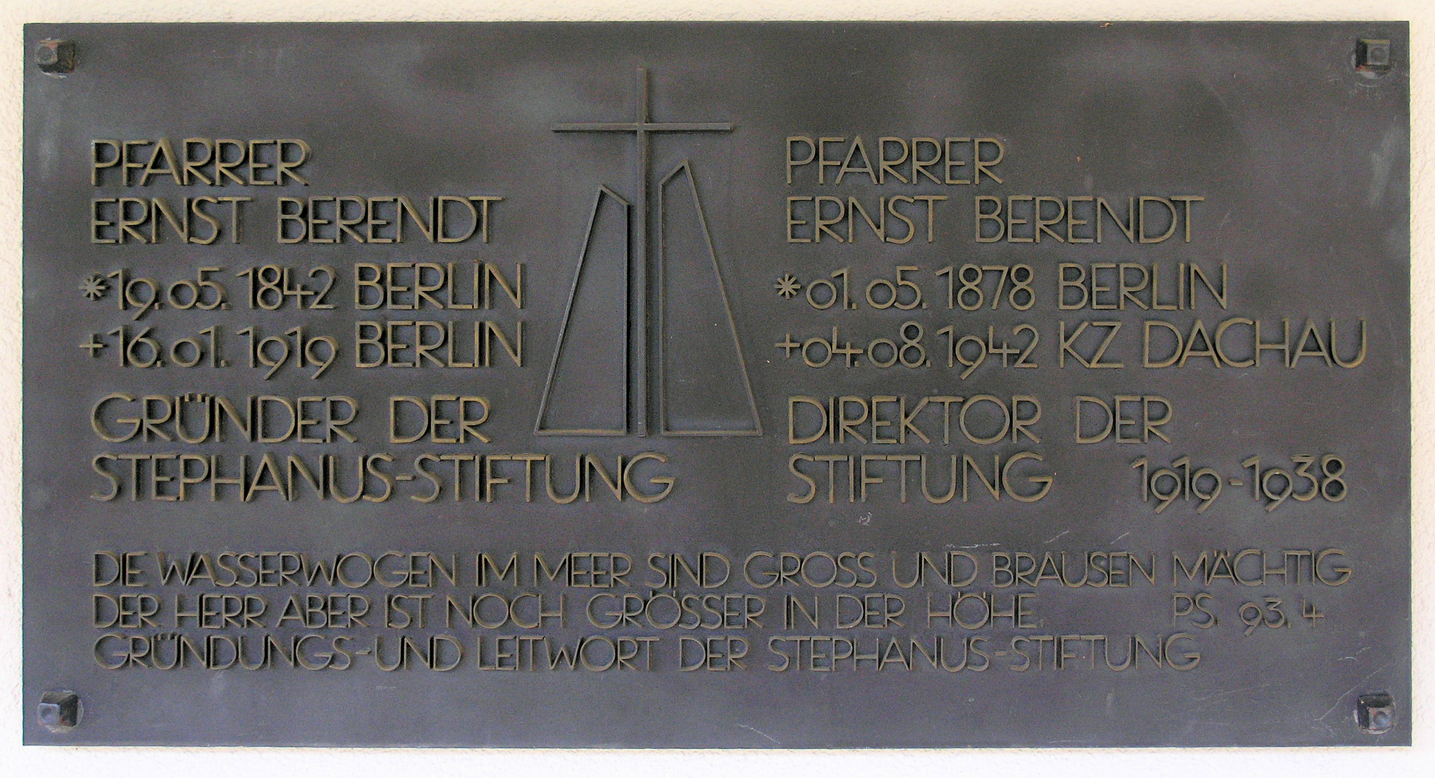 Memorial plaque, Ernst Berendt, Albertinenstraße 20, Berlin-Weißensee, Germany